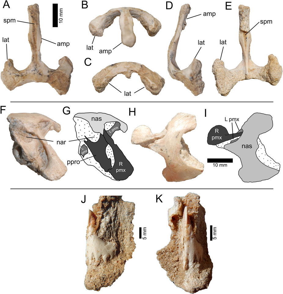 Fused nasals in dorsal (A), anterior (B), posterior (C), right lateral (D), and ventral (E) views. MPC-D 102/34, Avimimus. Block containing right premaxilla, maxilla and fused nasals in lateral (F,G) and dorsal (H,I) views. MPC-D 102/108, Avimimus. Block containing two nearly articulated premaxillae in left lateral (J) and anterior (K) views. Abbrevations: amp, anterior midline process; lat, lateral descending process; L pmx, left premaxilla; nar, naris; nas, nasal; ppro, posterior process of premaxilla; R pmx, right premaxilla; spm, slot in nasal for premaxilla.